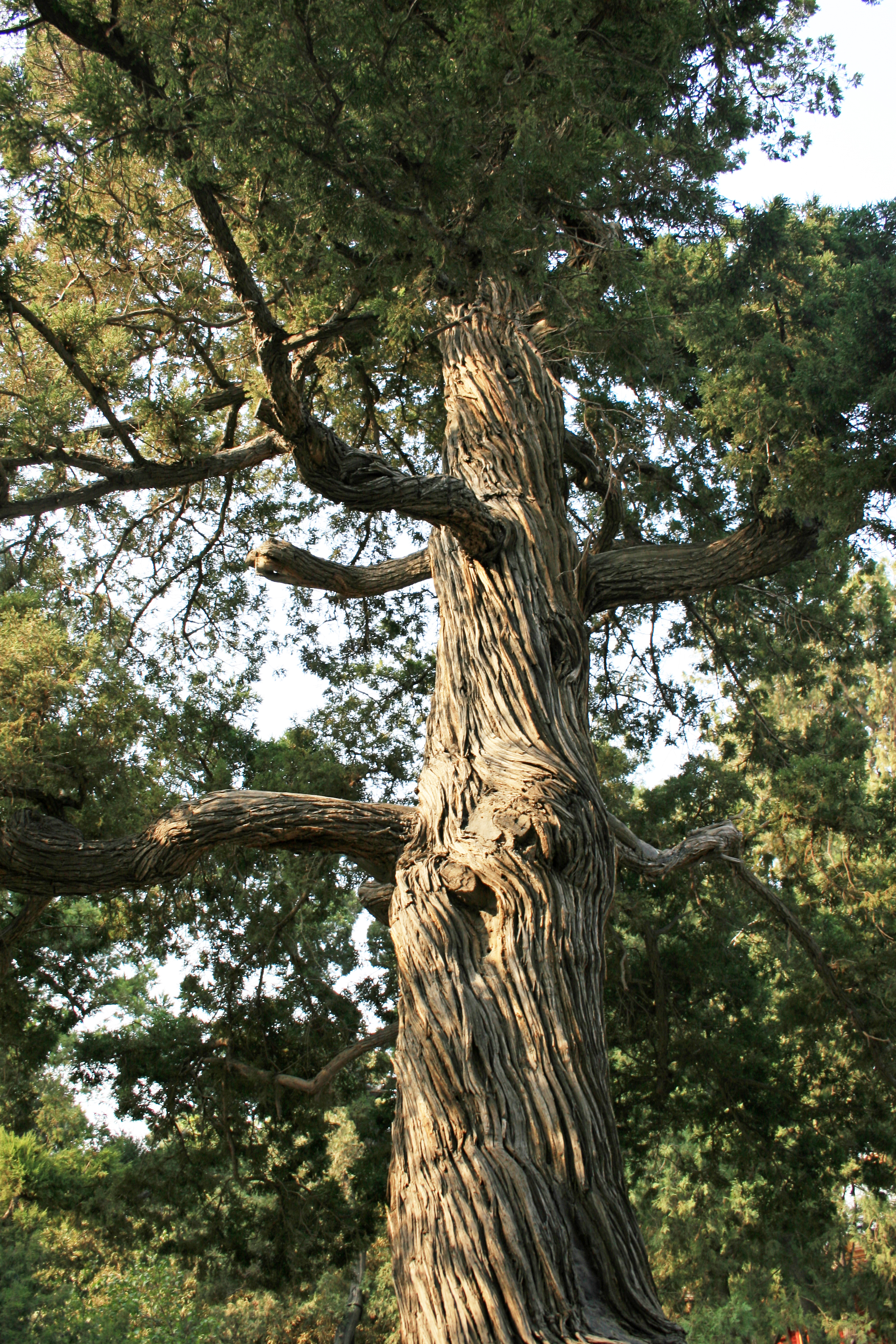 Platycladus orientalis old tree, cultivated, Imperial Gardens, Forbidden City, Beijing.